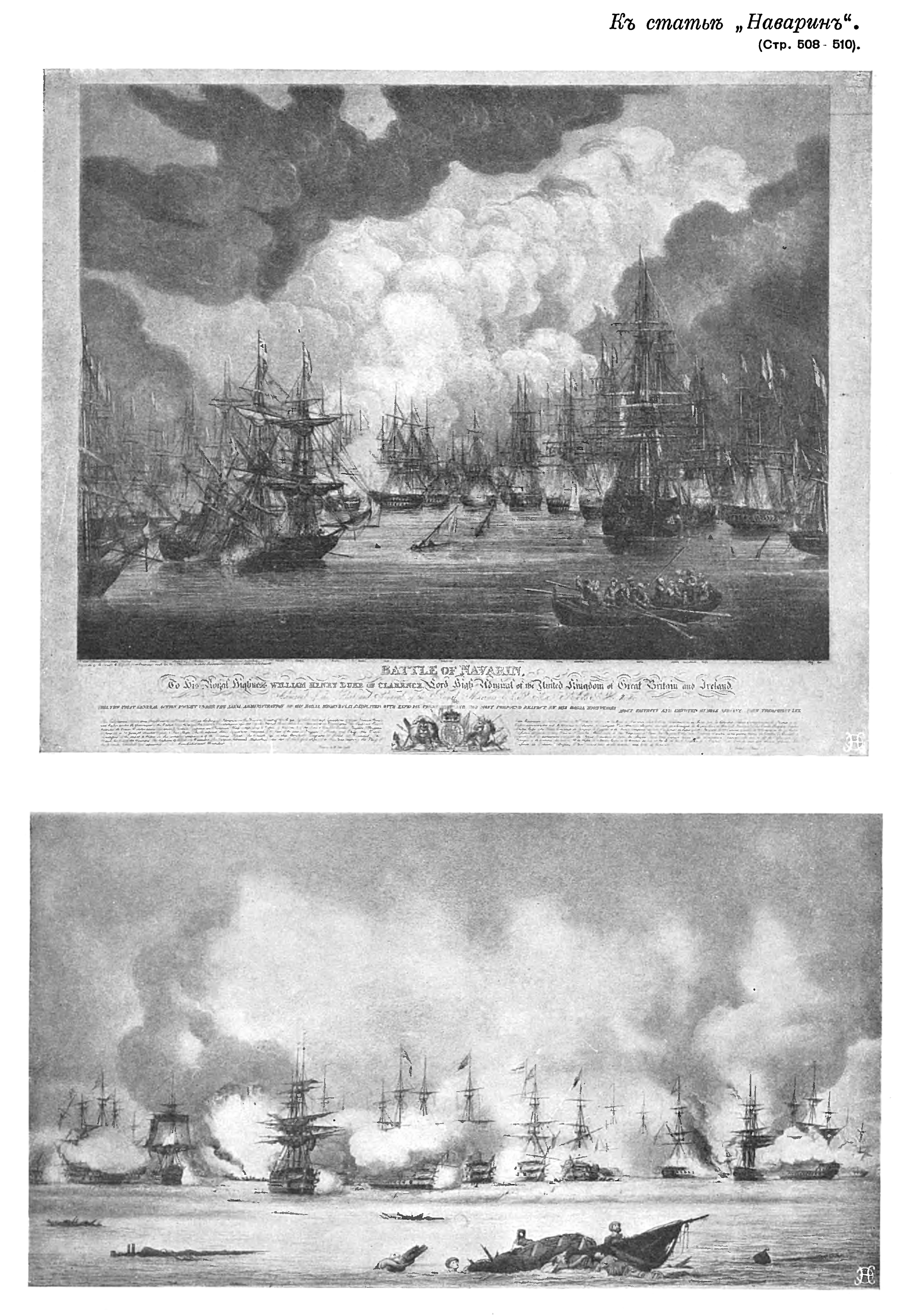 The Battle of Navarino was a naval battle fought on 20 October 1827, during the Greek War of Independence (1821–32), in Navarino Bay (modern Pylos), on the west coast of the Peloponnese peninsula, in the Ionian Sea. Allied forces from Britain, France, and Russia decisively defeated Ottoman and Egyptian forces trying to suppress the Greek war of independence, thereby making much more likely the independence of Greece.